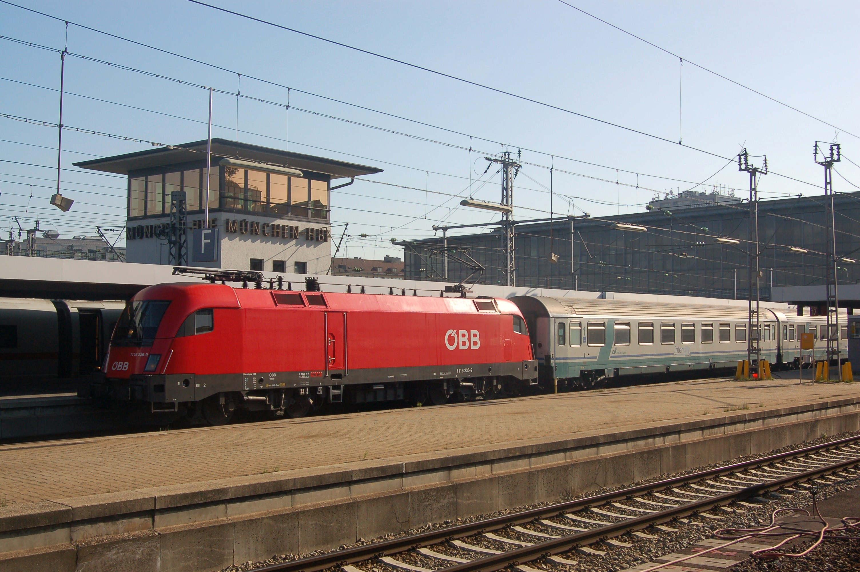 ÖBB locomotive no. 1116 236-9 awaits departure from platform 18 of the München Hauptbahnhof with an international train made up of Trenitalia coaches.